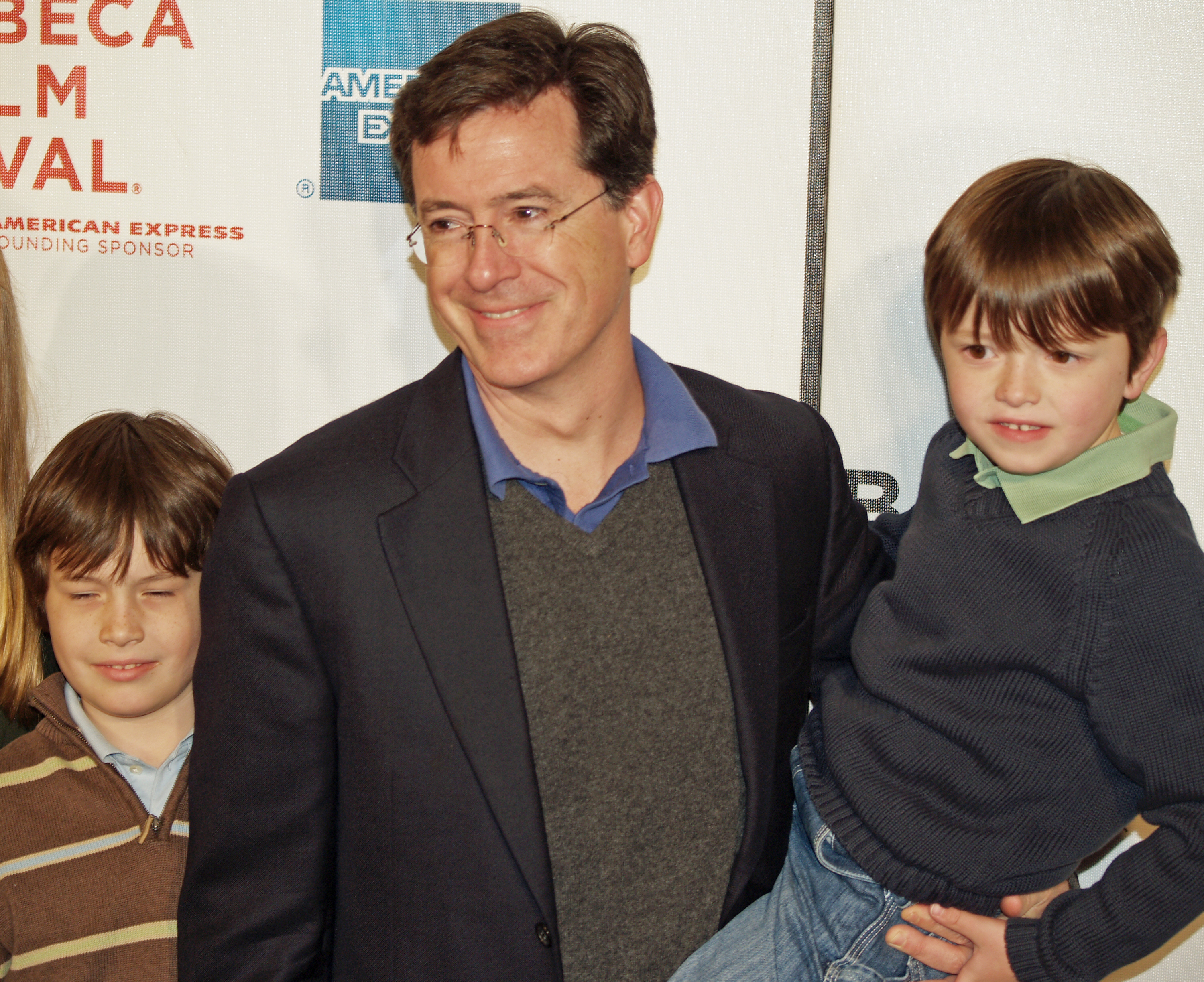 Stephen Colbert and sons at the premiere of Speed Racer at the 2008 Tribeca Film Festival.